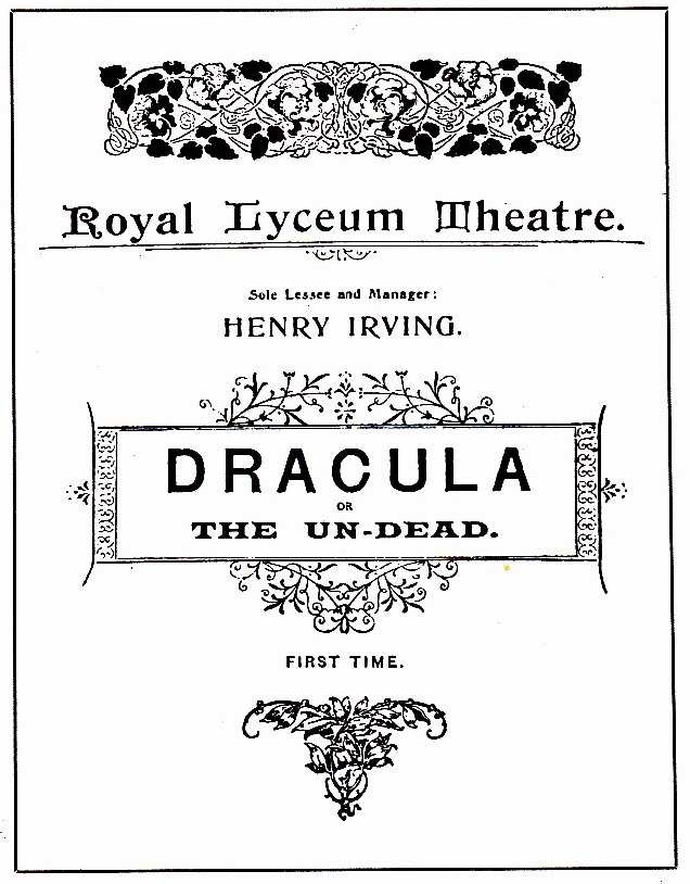 Original program for the May 18, 1897 Lyceum Theatre production of Bram Stoker's play Dracula, or The Undead